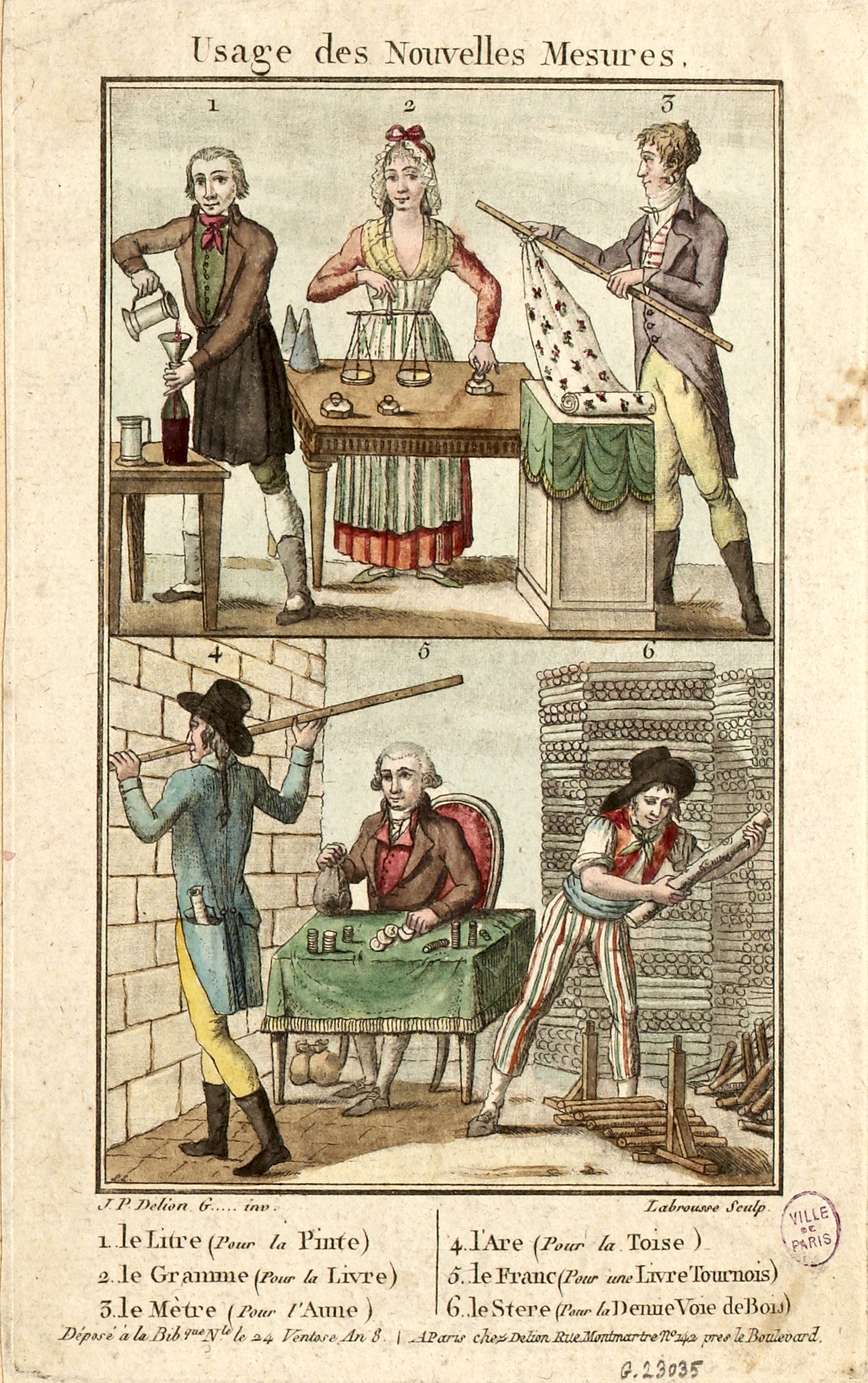 Woodcut dated 1800 illustrating the new decimal units which became the legal norm in France on 4 November 1800, five years after the the metrical system was first introduced. In the captions, each one of these six new units is followed by the old French unit in brackets: the litre, the gram, the metre, the are (100 square metres), the franc, and the stère (1 cubic metre of wood).